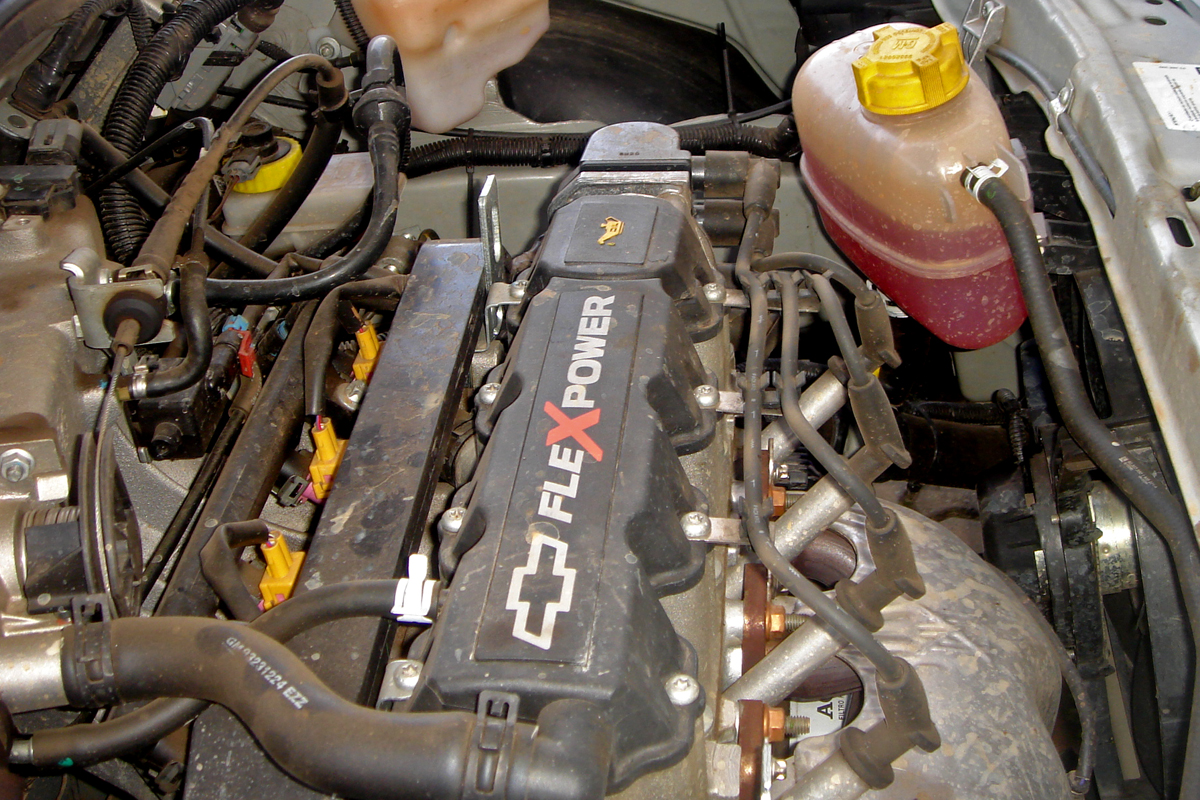 Information FlexPower engine with secondary gasoline reservoir for cold starting, Brazilian flexible-fuel Chevrolet Celta